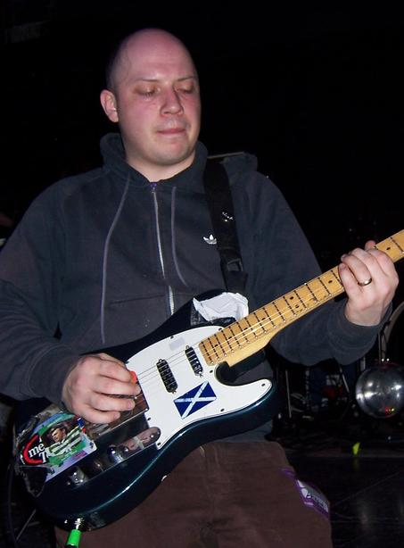 Stuart Braithwaite performing with Mogwai at the Avalon in New York.